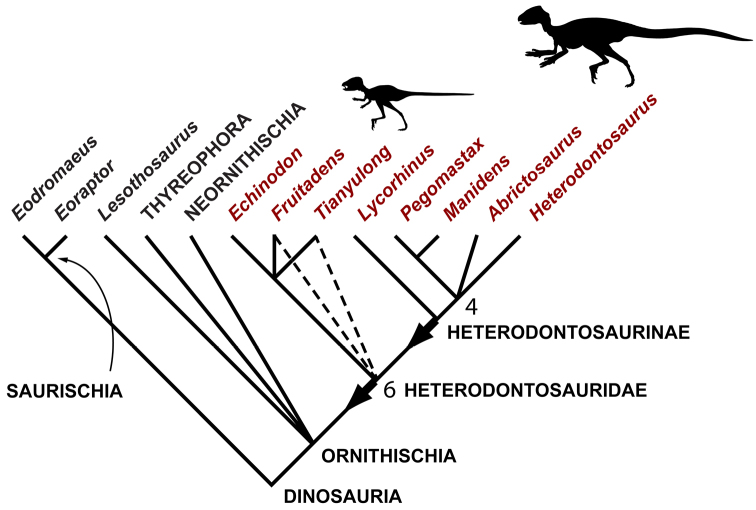 Phylogenetic hypothesis for heterodontosaurids based on character data assembled in this study. Consensus tree summarizing 6 minimum-length trees (38 steps) based on maximum parsimony analysis of 30 characters in 8 heterodontosaurid genera (consistency index = 0.79; retention index = 0.88; Appendix I). Outgroups (constrained as shown) include basal saurischians (Eoraptor, Eodromaeus) and representative ornithischians (Lesothosaurus, Thyreophora, Neornithischia). Dashed lines indicate loss of resolution with an increase of one step in tree length; numbers at nodes indicate the decay index when four poorly known heterodontosaurids (Echinodon, Fruitadens, Lycorhinus, Pegomastax) are removed from the analysis. Red text highlights heterodontosaurid genera; arrows indicate stem-based definitions for Heterodontosauridae and Heterodontosaurinae; body icons of Tianyulong and Heterodontosaurus are shown at appropriate relative size (based on Figures 30 and 72).